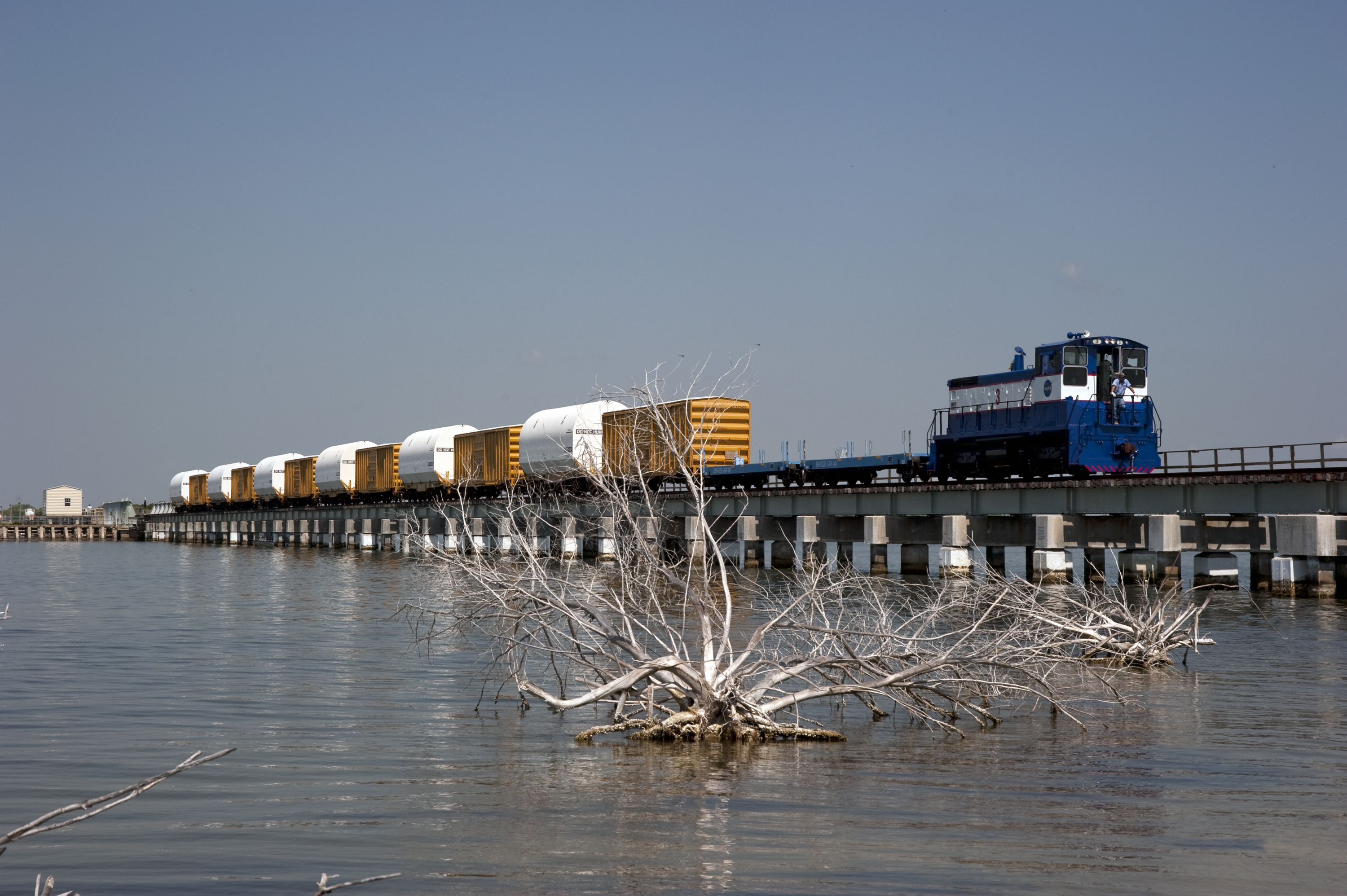 The NASA Railroad train transports the last space shuttle solid rocket booster segments over the Indian River on the 13-mile trip from the Jay Jay Rail Yard in Titusville, Fla., to NASA's Kennedy Space Center. Six cars transported the segments along the Florida East Coast Railway, which began at the ATK solid rocket booster plant in Promontory, Utah. The booster segments will be used for shuttle Atlantis on what currently is planned as the "launch on need" flight, or potential rescue mission for the final shuttle flight, Endeavour's STS-134 mission. The launch on need flight has been designated as STS-335, which may be changed to STS-135 should an additional shuttle flight be committed. Note the "spacer cars" between each booster car, which helps distribute weight as the train crosses the Indian River bridge.